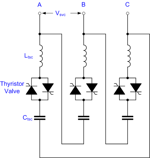 Schematic arrangement of a typical three-phase, delta-connected Thyristor Switched Capacitor (TSC).